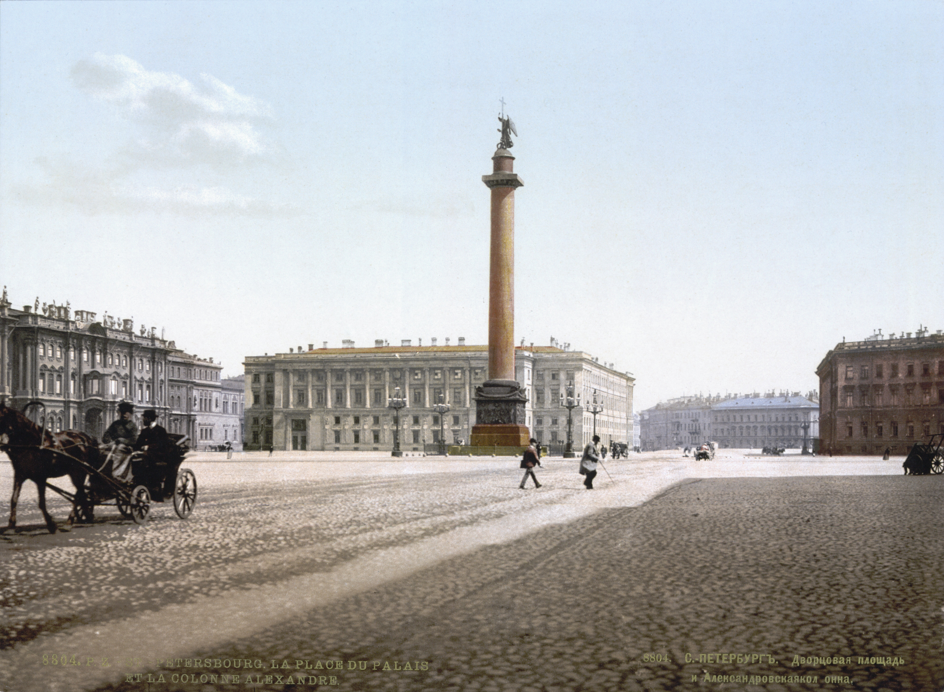 The Palace square and_Alexander's column in St Petersburg (Russia). 19th-century photochrome print (1890—1900)